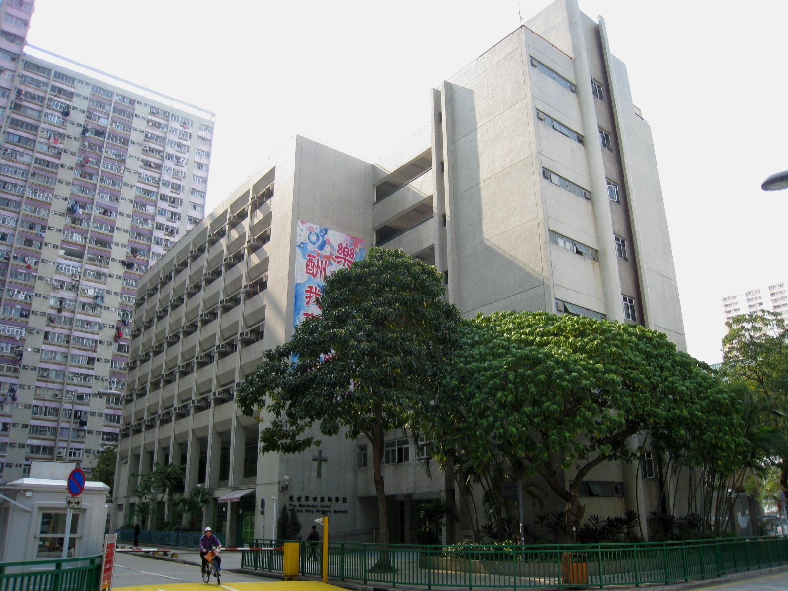 HK Salvation Army Tin Ka Ping School